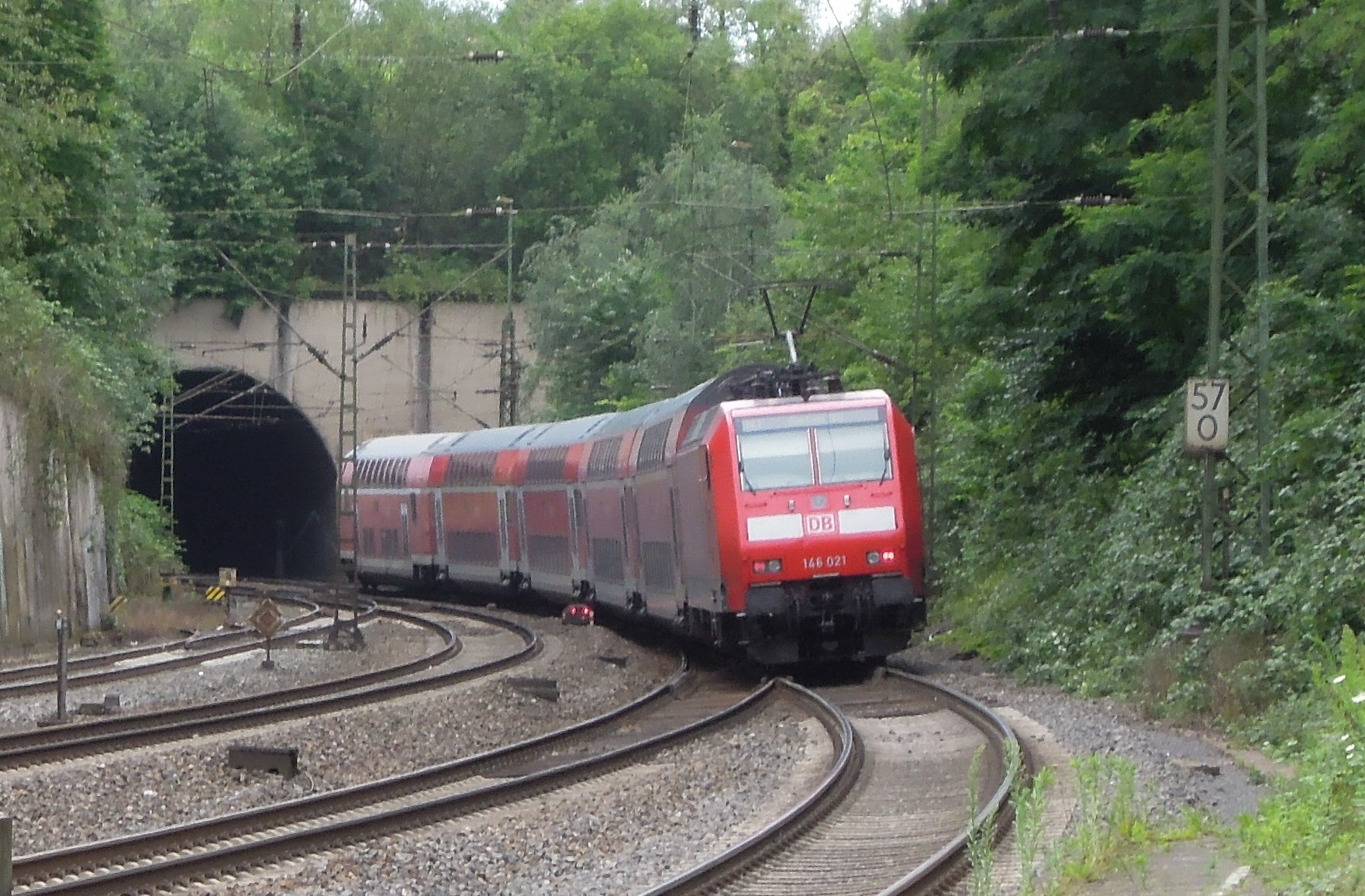 A RegionalExpress-Train is leaving Eschweiler Hbf using the Ichenberger Tunnel.